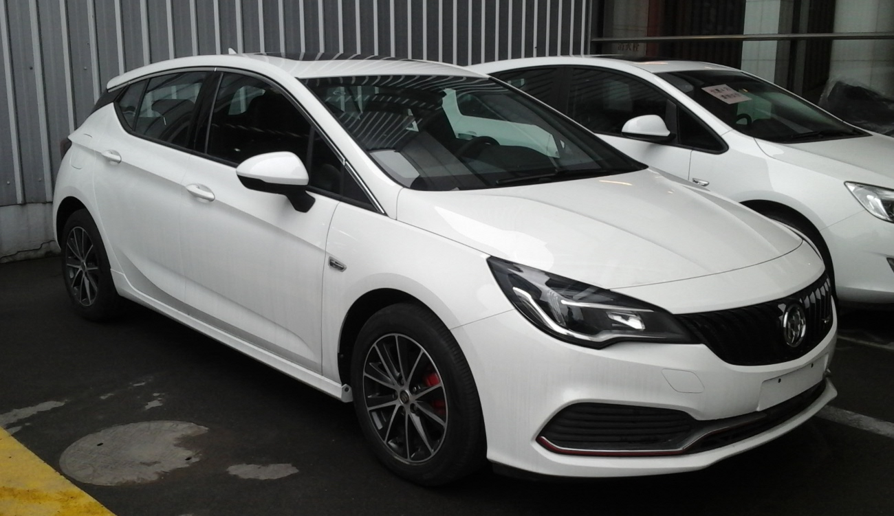 Buick Verano II hatch GS photographed in Shanghai, China.